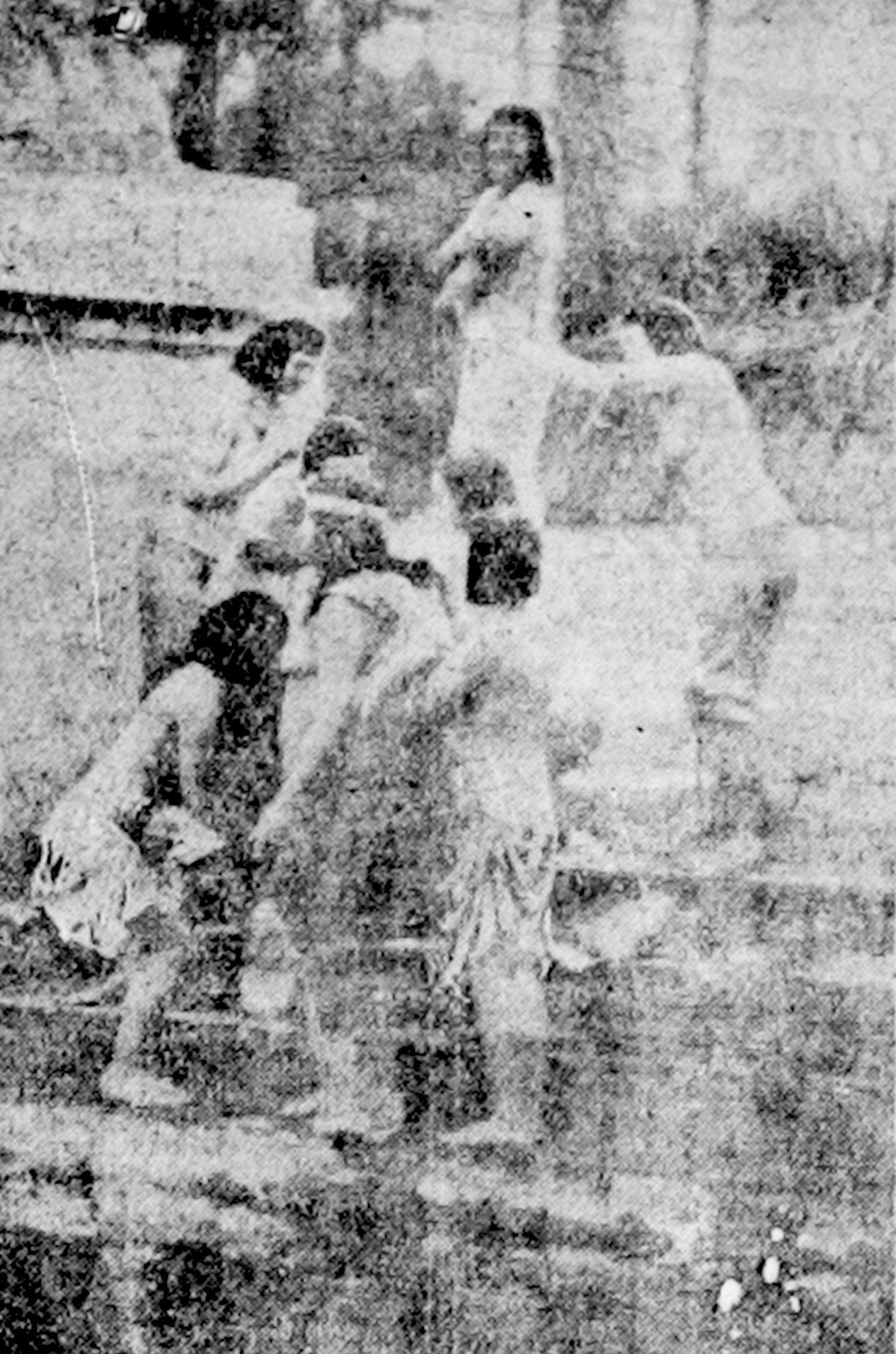 The Birth of a Race is a 1918 American silent drama film directed by John W. Noble. This is a scene published in a 1922 newspaper, originally captioned: Pharaoh's Daughters in The Birth of a Race.